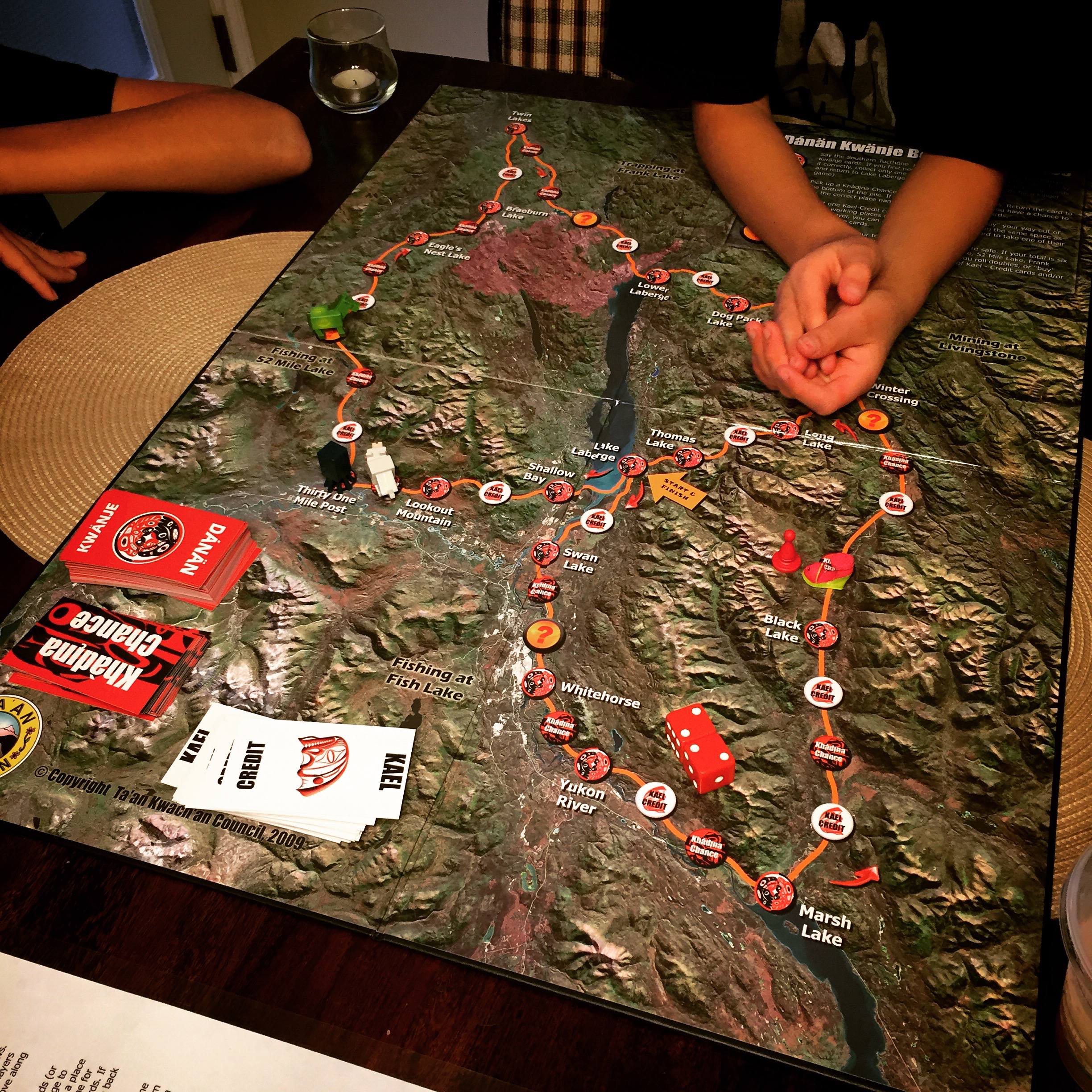 Dánän Keänje - Our Land Speaks - a board game that helps players learn Southern Tutchone, a Yukon First Nation language.